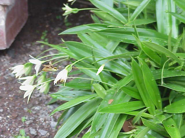 Species: Talbotia elegans Family: Velloziaceae Image No. 1